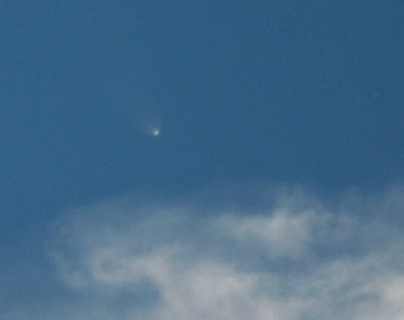 Comet McNaught was visible to the naked eye in broad daylight. Taken on Jan/13/2007 at 14:00 UTC in Gais/Switzerland. Photographer: Mark Vornhusen